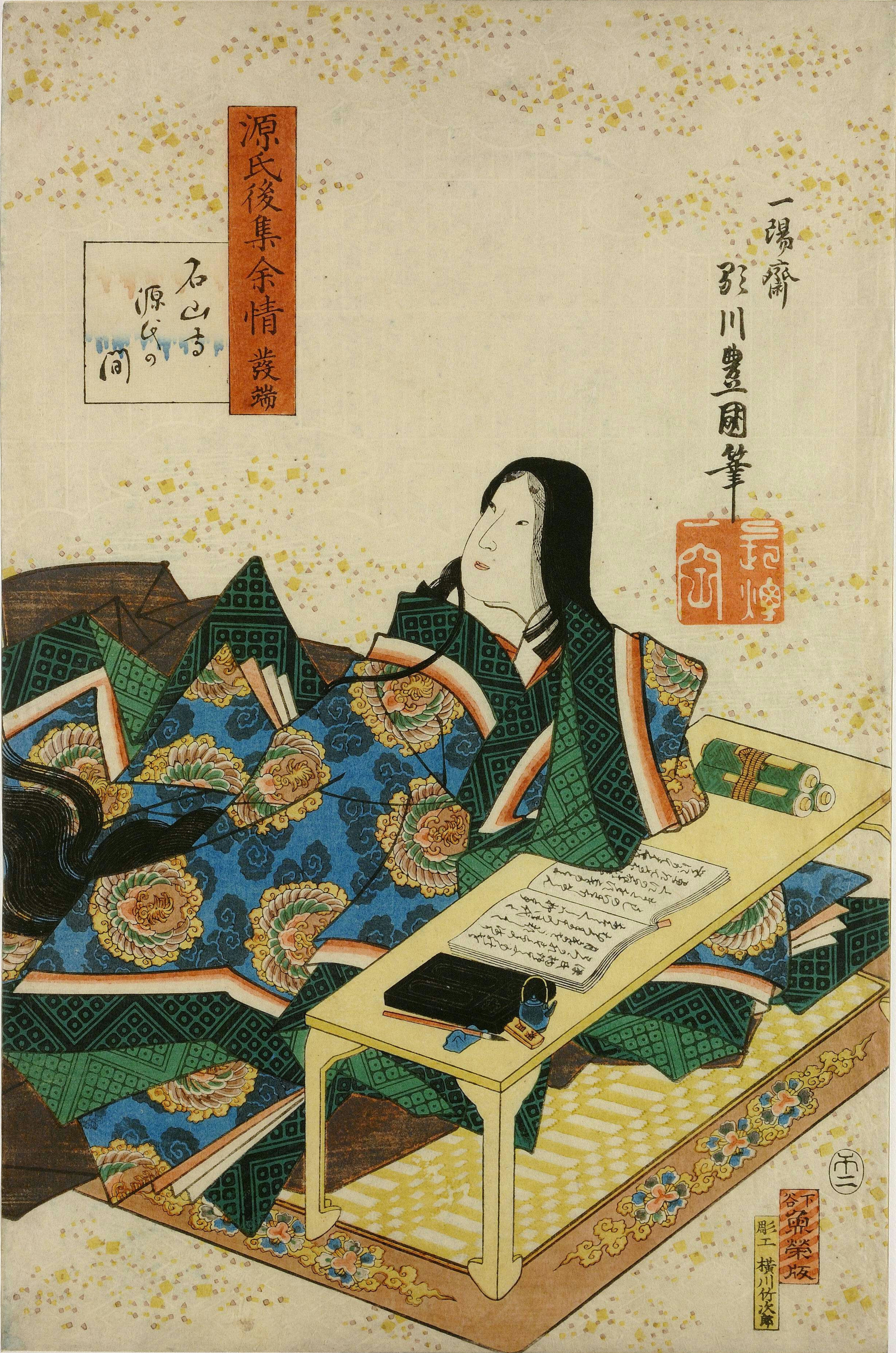 Murasaki Shikibu writing